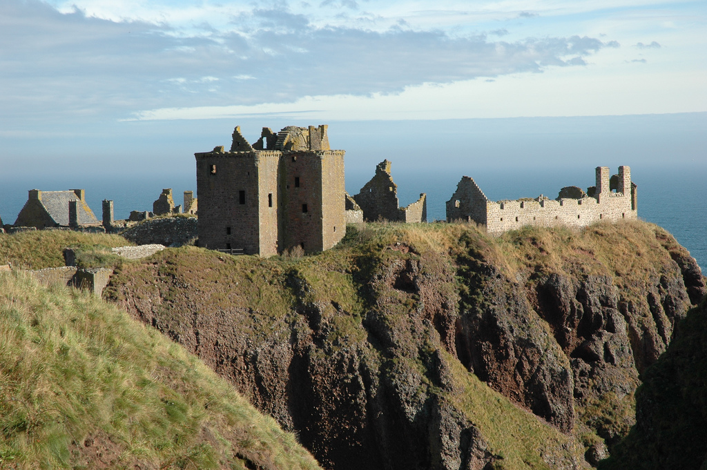 Dunnottar castle on the East coast of Scotland a few miles south of Aberdeen.